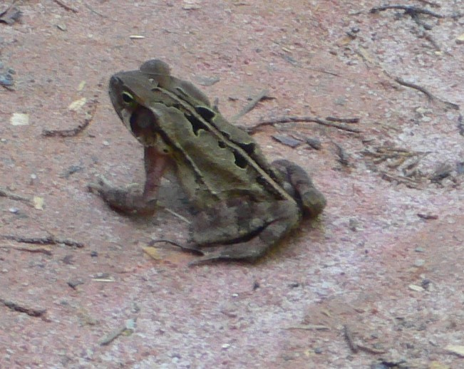 frog (Chaunus crucifer) in Atlantic forest of SE Brazil